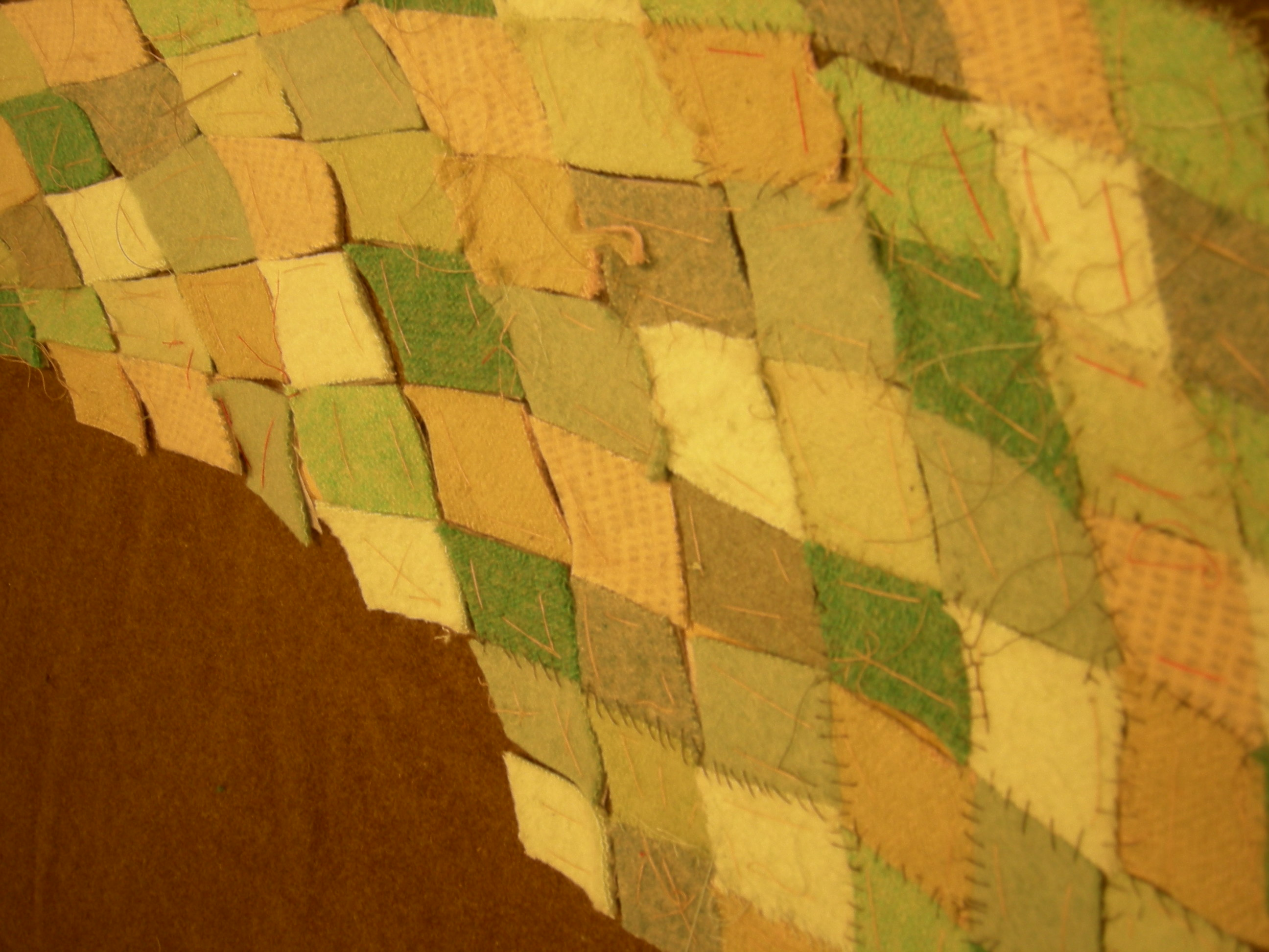 Blanket in progress as part of an art project, Seattle Art Museum, Seattle, Washington.